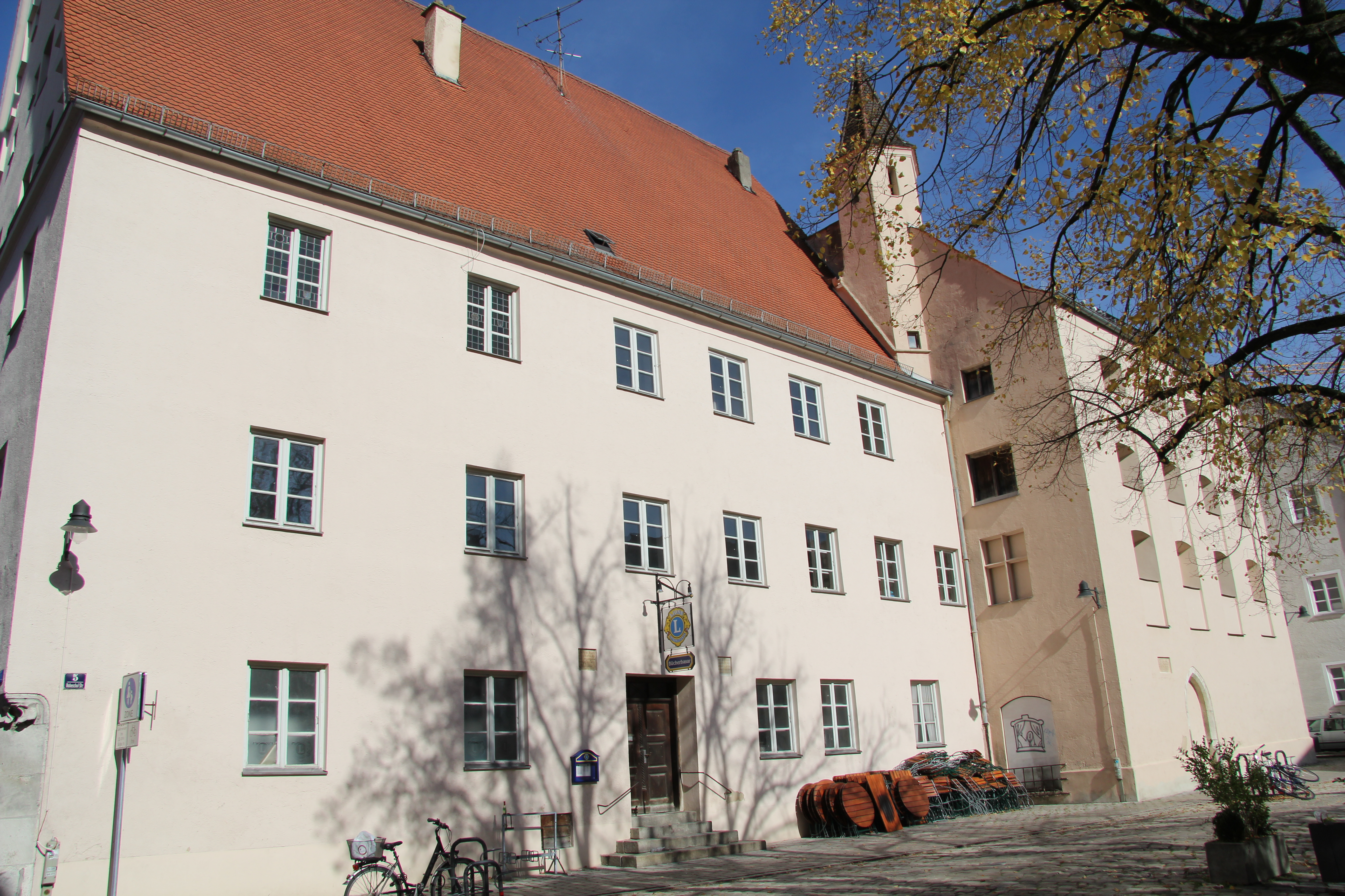 Ingolstadt, Georgianum with chapel St. Peter und Paul